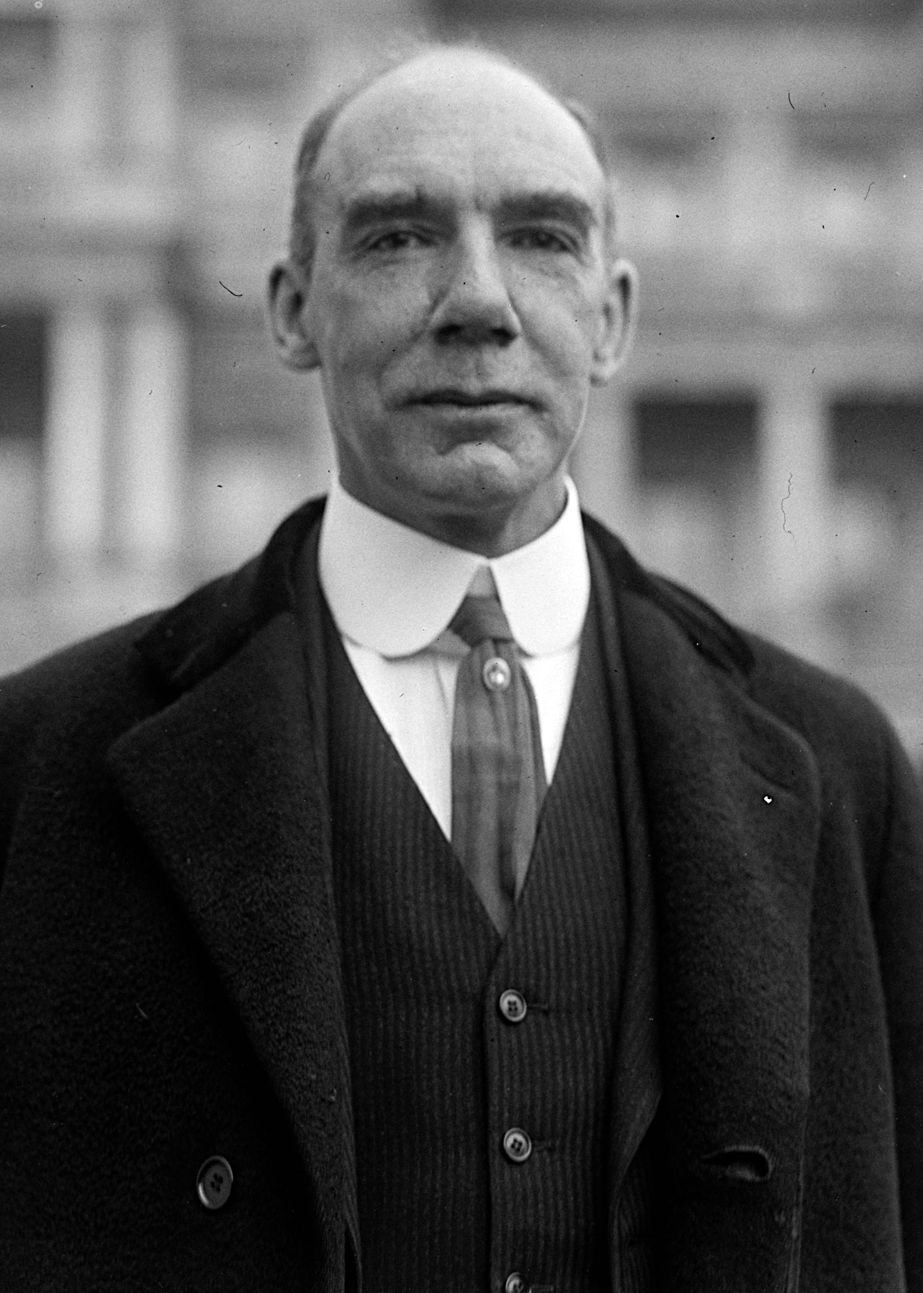 Henry Riggs Rathbone, US Representative from Illinois